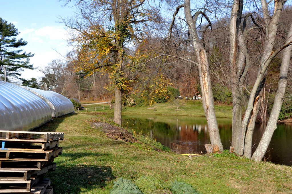 The farm pond at the John Harris House and Farm (now operated as Allandale Farm) in Brookline and Boston, Massachusetts.